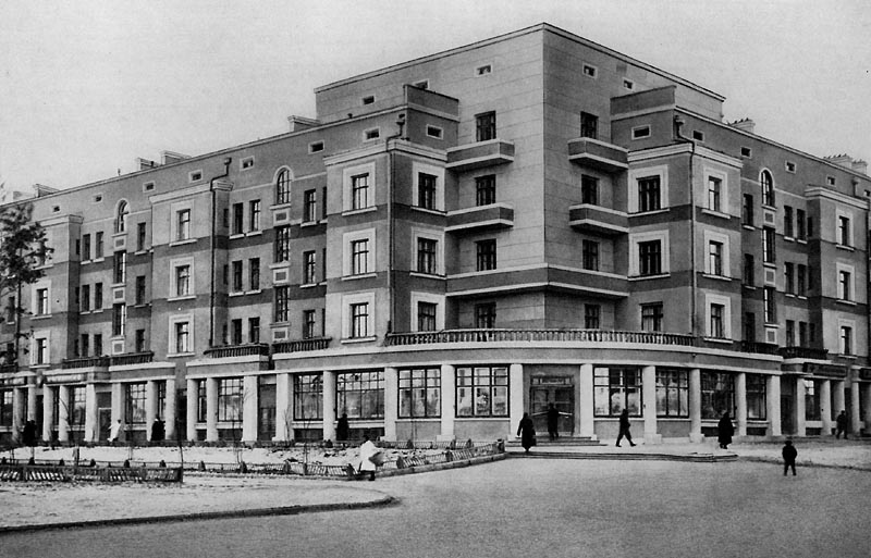 Sverdlovsk, Housing; Architect: Oransky; Year: 1936